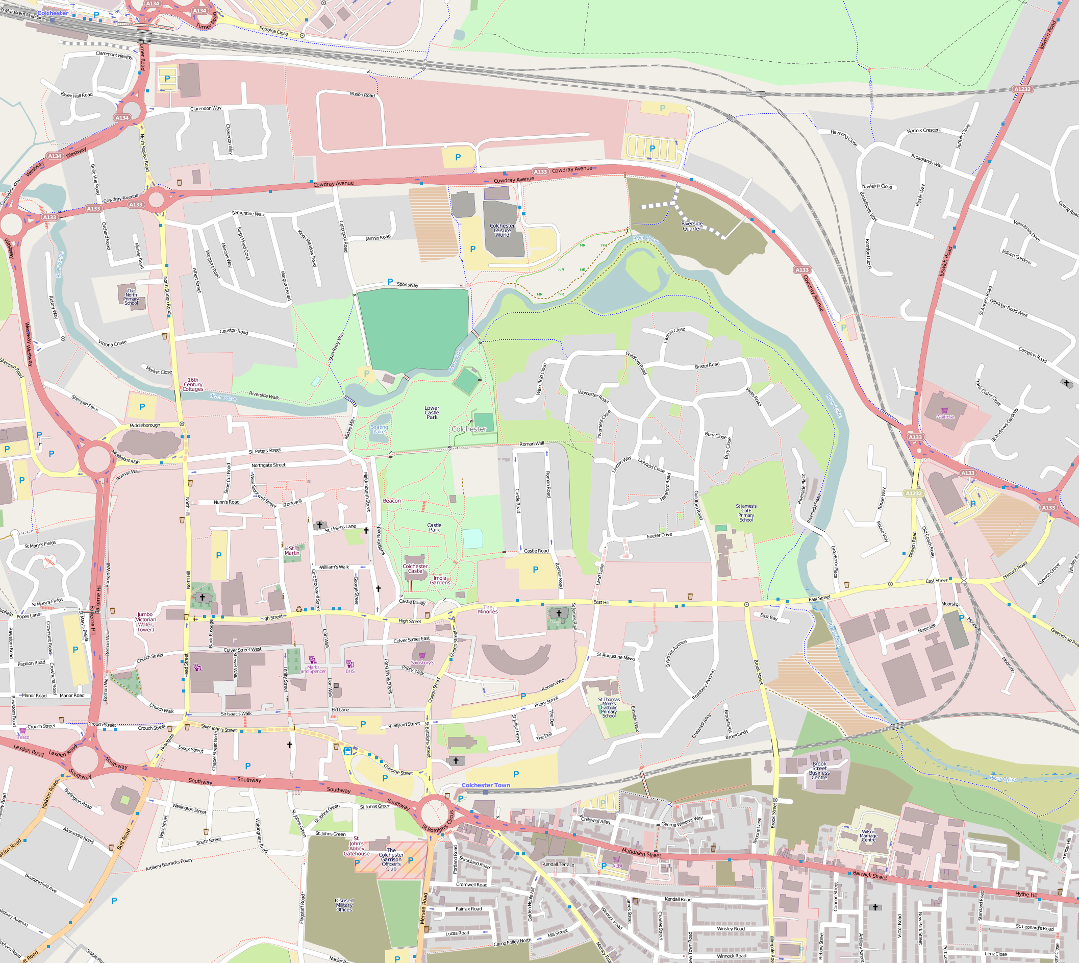 Map of Colchester Geographic limits: N: 51.90096° S: 51.88338° W: -0.89075° E: 0.92268°